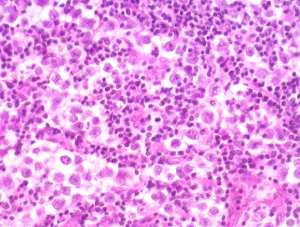 testis, seminoma. H&E 200x